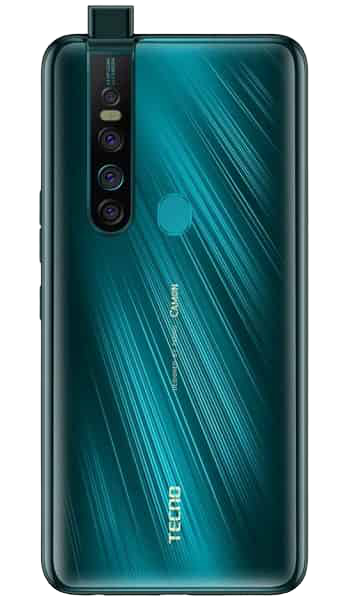 Tecno camon 15 premier Bangla Review 2020 Price in BD Unboxing